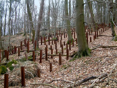 Anti-tank rails at the Casemate number 9 of the Hochwald ditch - Secteur Fortifié de Haguenau - Sous secteur de Hoffen